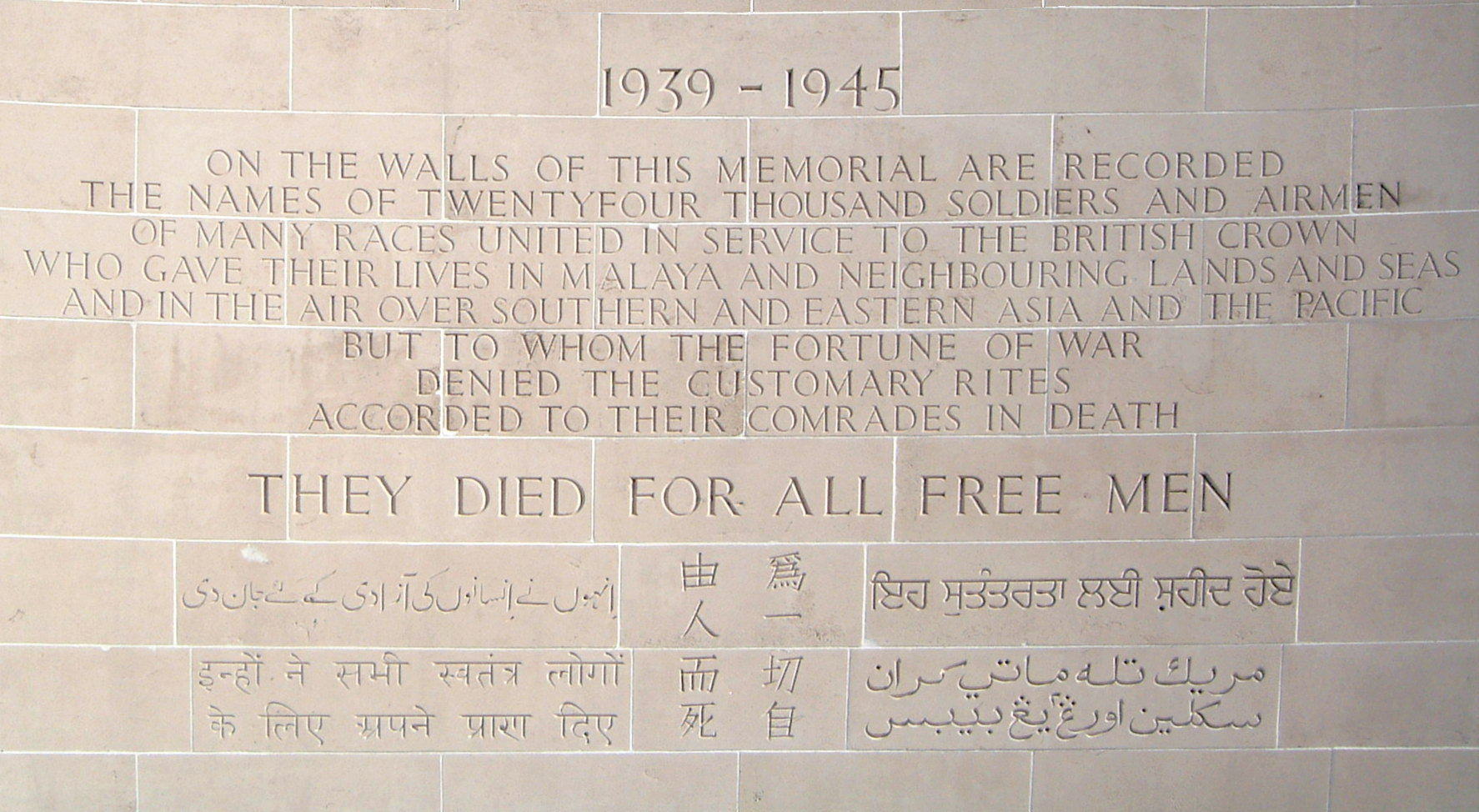 Inscription in remembrance of the war victims, in Kranji War Memorial, Singapore